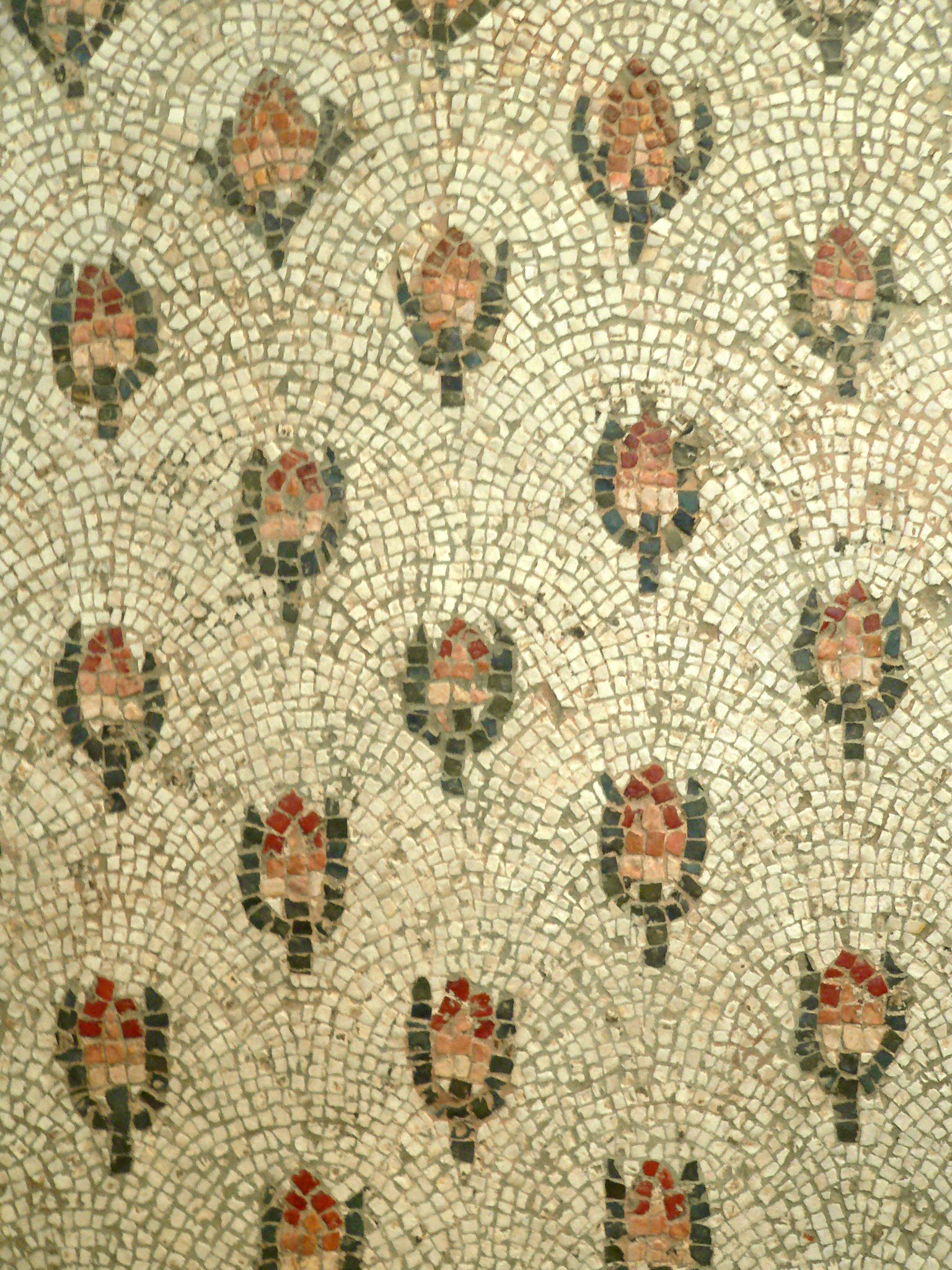 Roses, detail of a scene representing a phoenix with roses. Pavement mosaic (marble and limestone), 2nd half of the 3rd century AD. From Daphne, a suburb of Antioch-on-the-Orontes (now Antakya in Turkey).